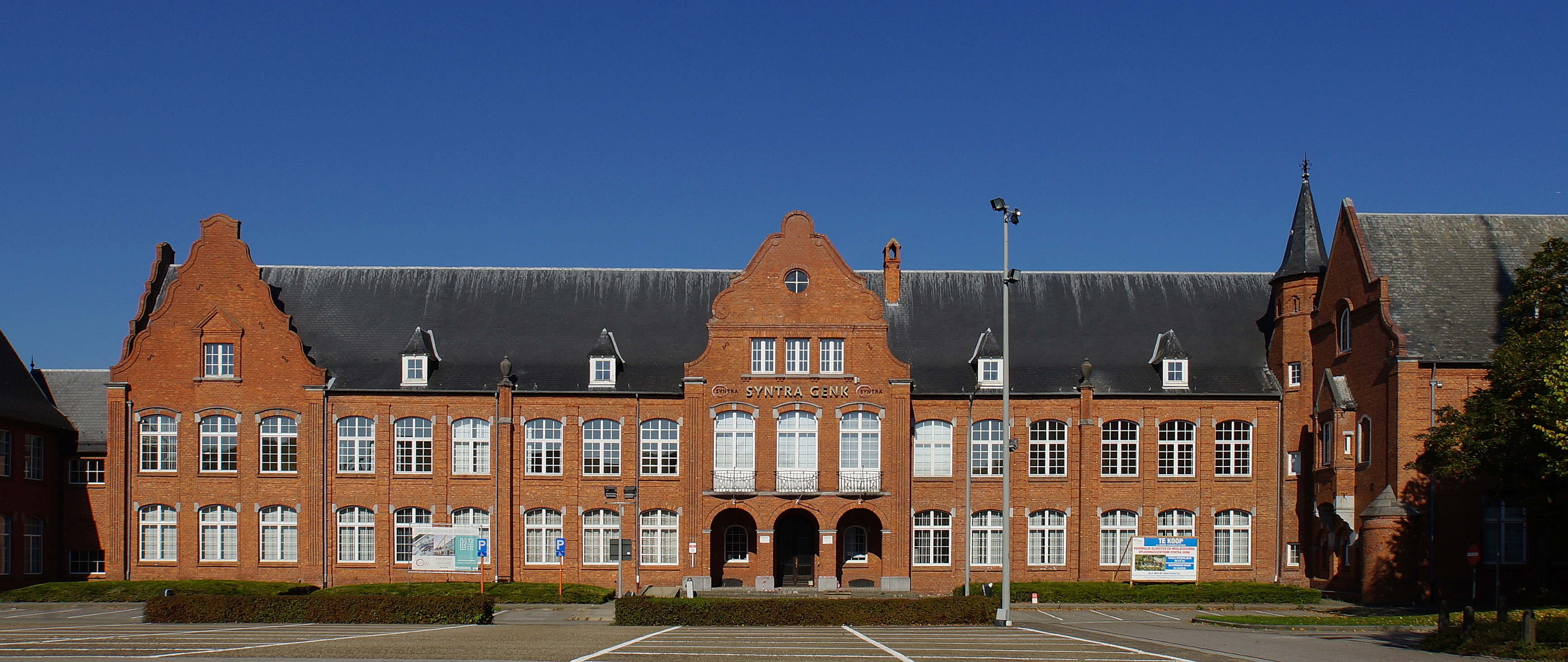 Former girls' school (front view) (Evence Coppéeplaats, Winterslag) - Work of architect Adrien Blomme